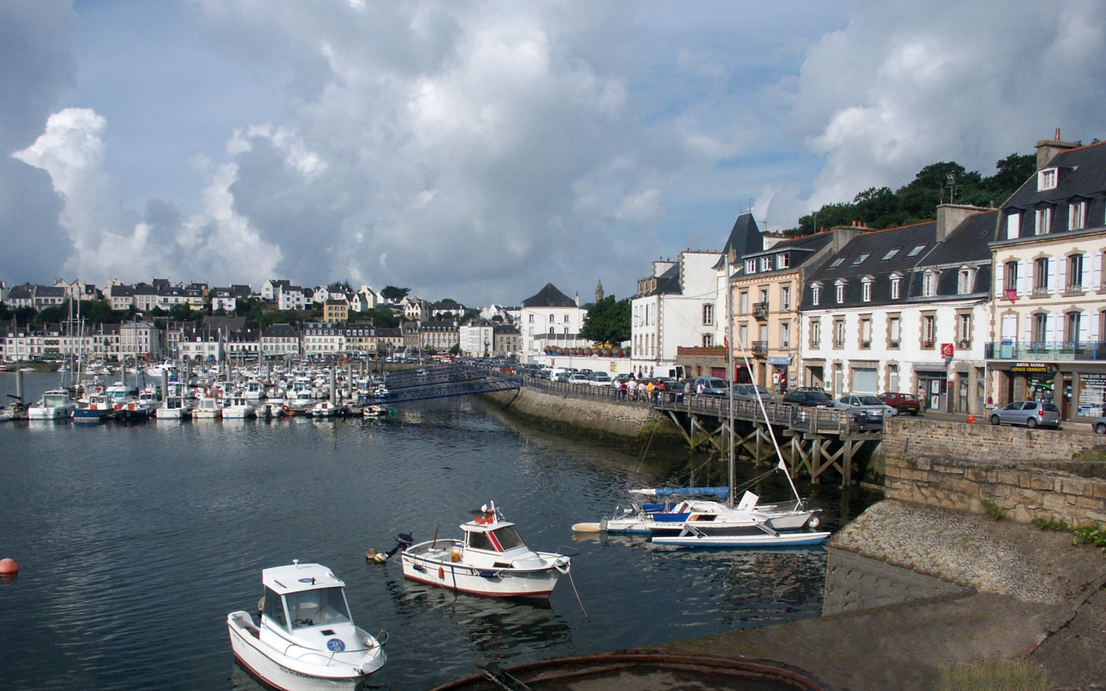 Port Audierne, (Brittany, France)